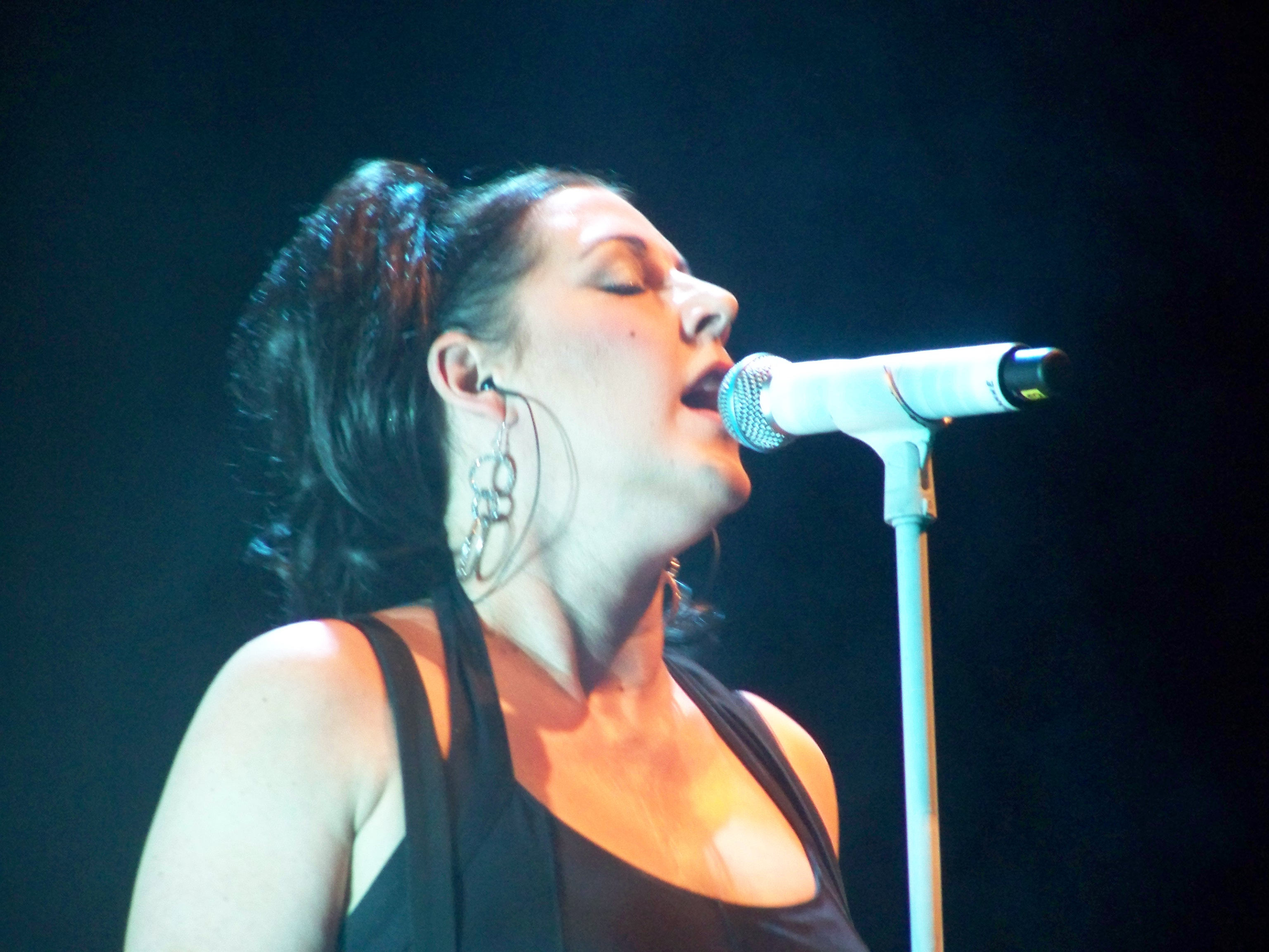 Joanne Catherall of The Human League at Ostende, Dare Tour 2007